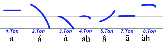 Schematic of Taiwanese tones